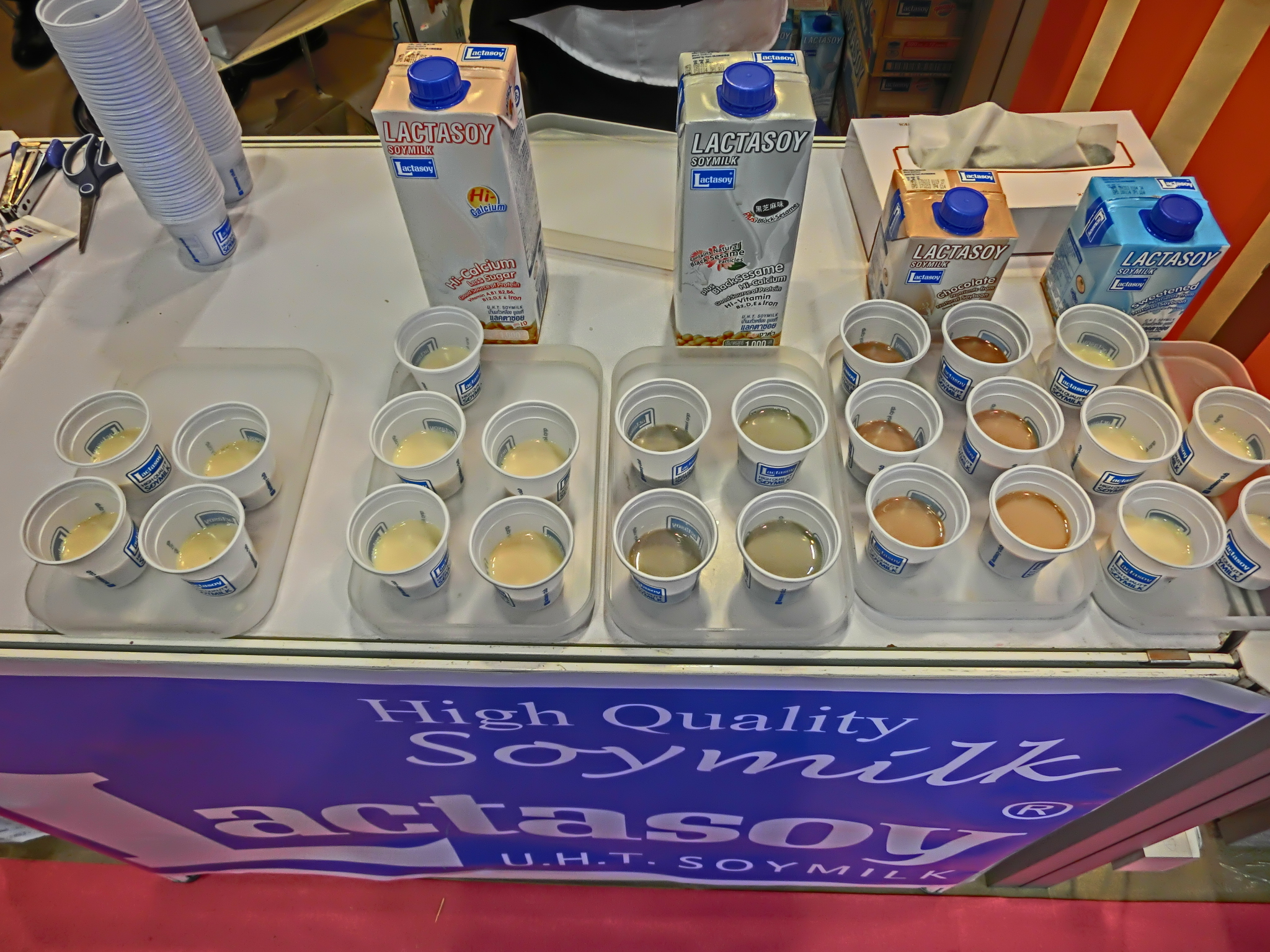 HKCEC Hofex booth Thai Soymilk product brand 大力獅 Lactasoy in May 2013